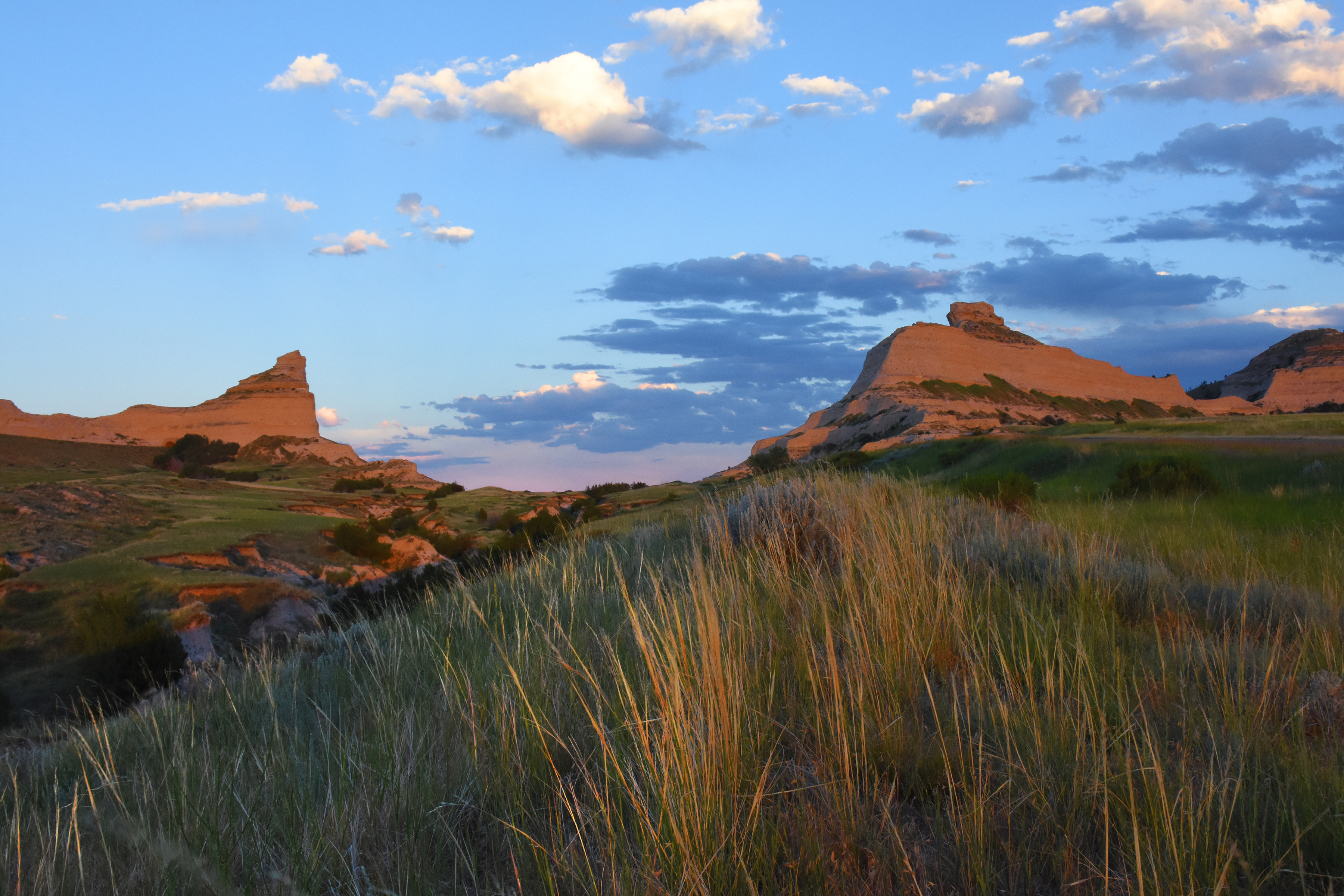 Scotts Bluff National Monument